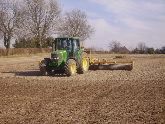 Barton Stacey - Preparing the Ground Tractor preparing the ground for sowing.